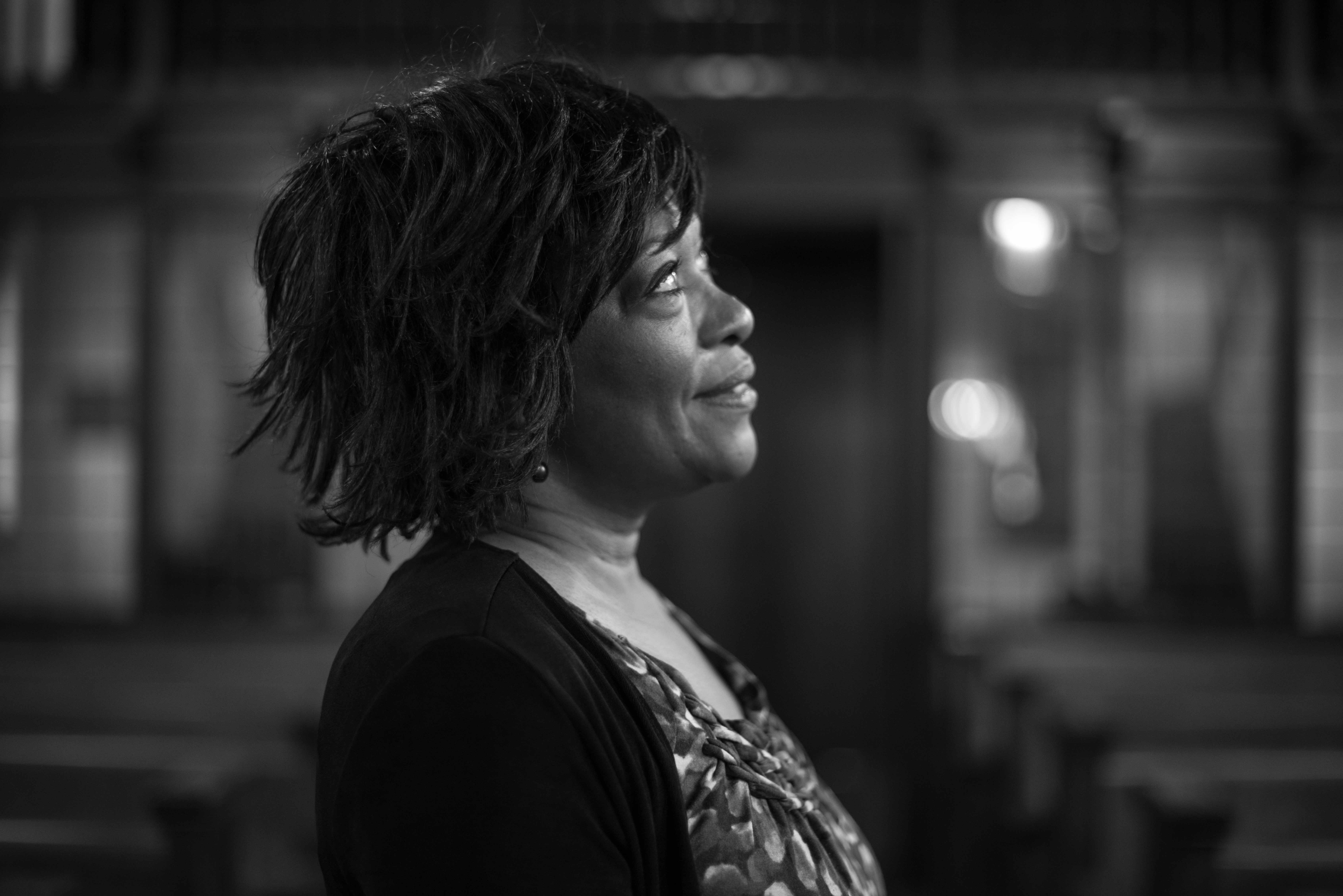 Still from the documentary film Rita Dove: An American Poet. Author: Eduardo Montes-Bradley